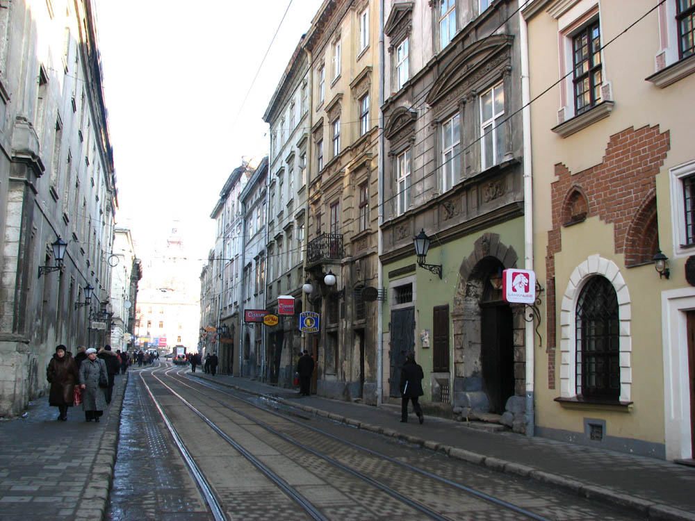 Rus'ka street in Lviv